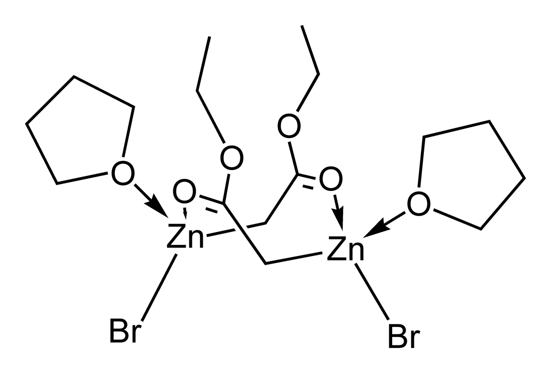 Skeletal formula of a dimer, (BrZnH2CCO2Et·THF)2, from the crystal structure of ethyl bromozincacetate tetrahydrofuran. X-ray crystallographic data from Synthesis (2008), 409-412.